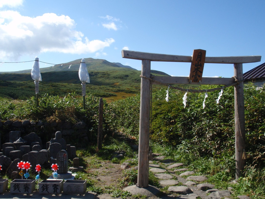 Gassan jinja Gate.